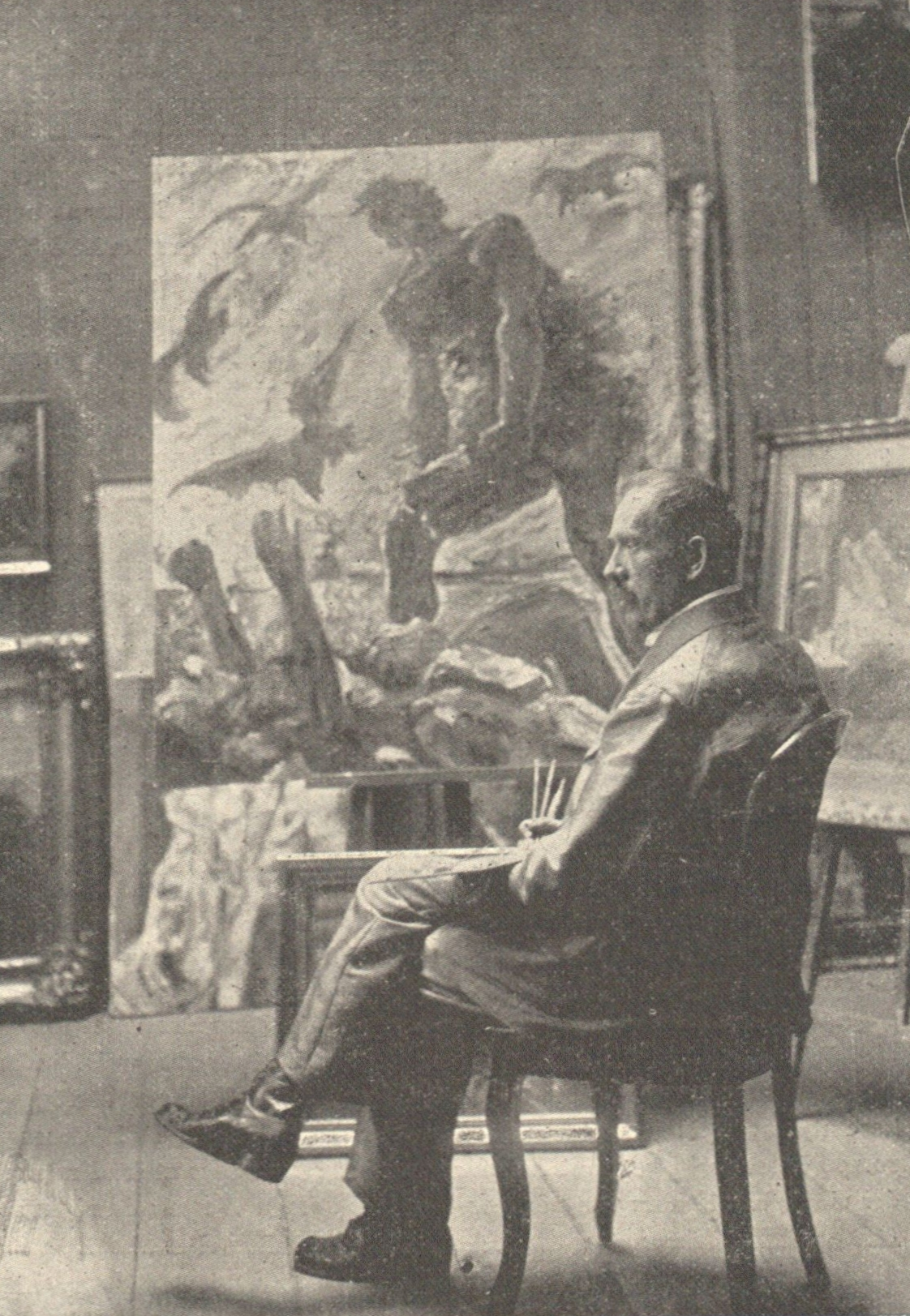 Lovis Corinth in his atelier